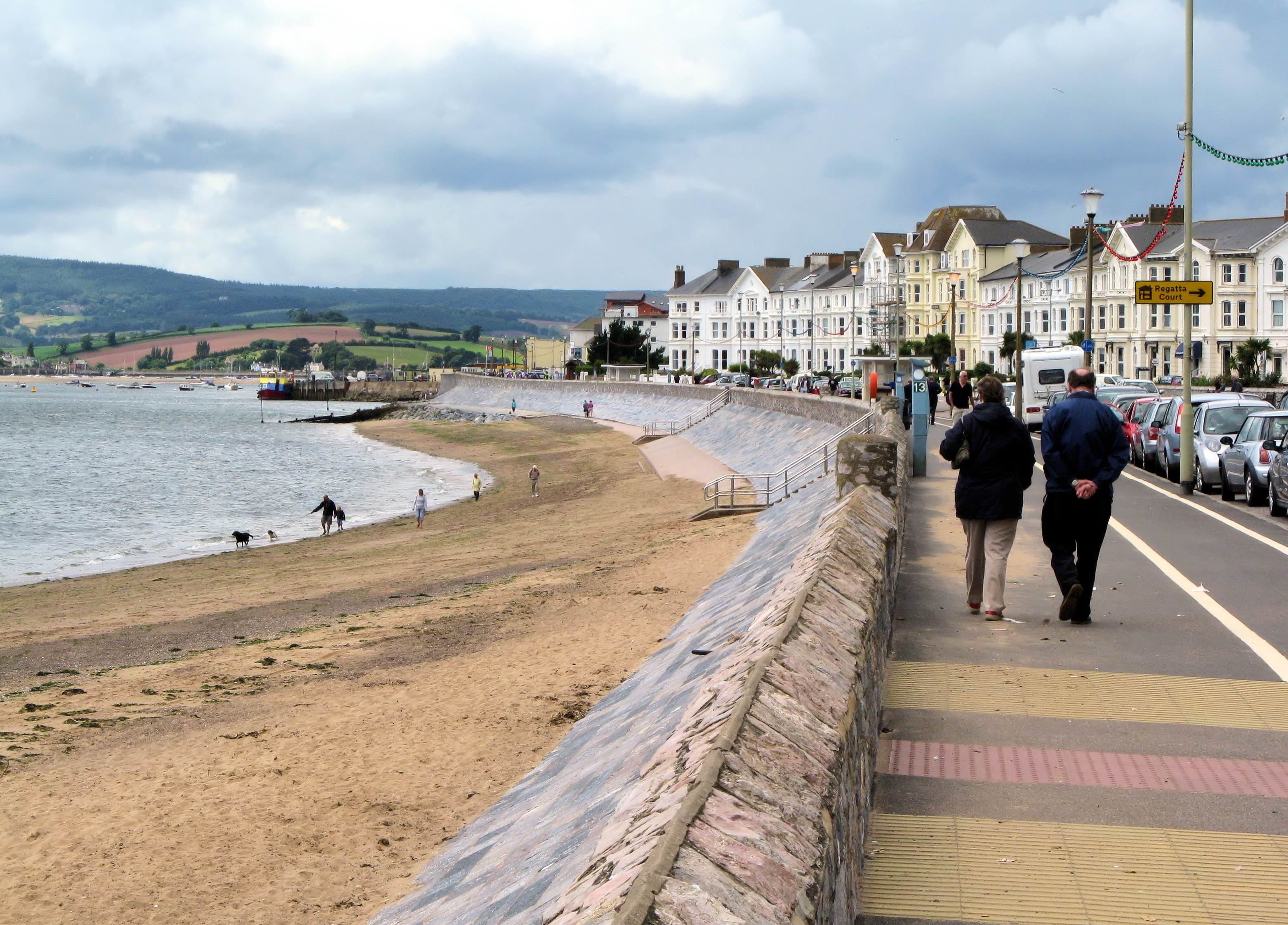 The sea front at Exmouth, South Devon, England, looking west. This town is the westward end of the Dorset and East Devon World Heritage Site, extending 95 miles (155km) to Swanage in Dorset. The Heritage Site is also called the Jurassic Coast, although Triassic, Jurassic and Cretaceous periods are represented.